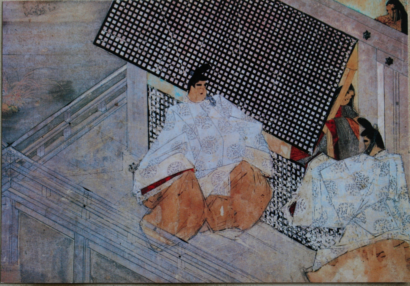 Part of the Murasaki Shikibu Diary Emaki, Gotoh edition. color and ink on paper, 21cm height